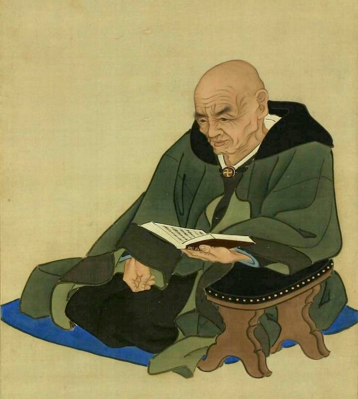 Portait og Ôtsuki Gentaku (1757-1827)